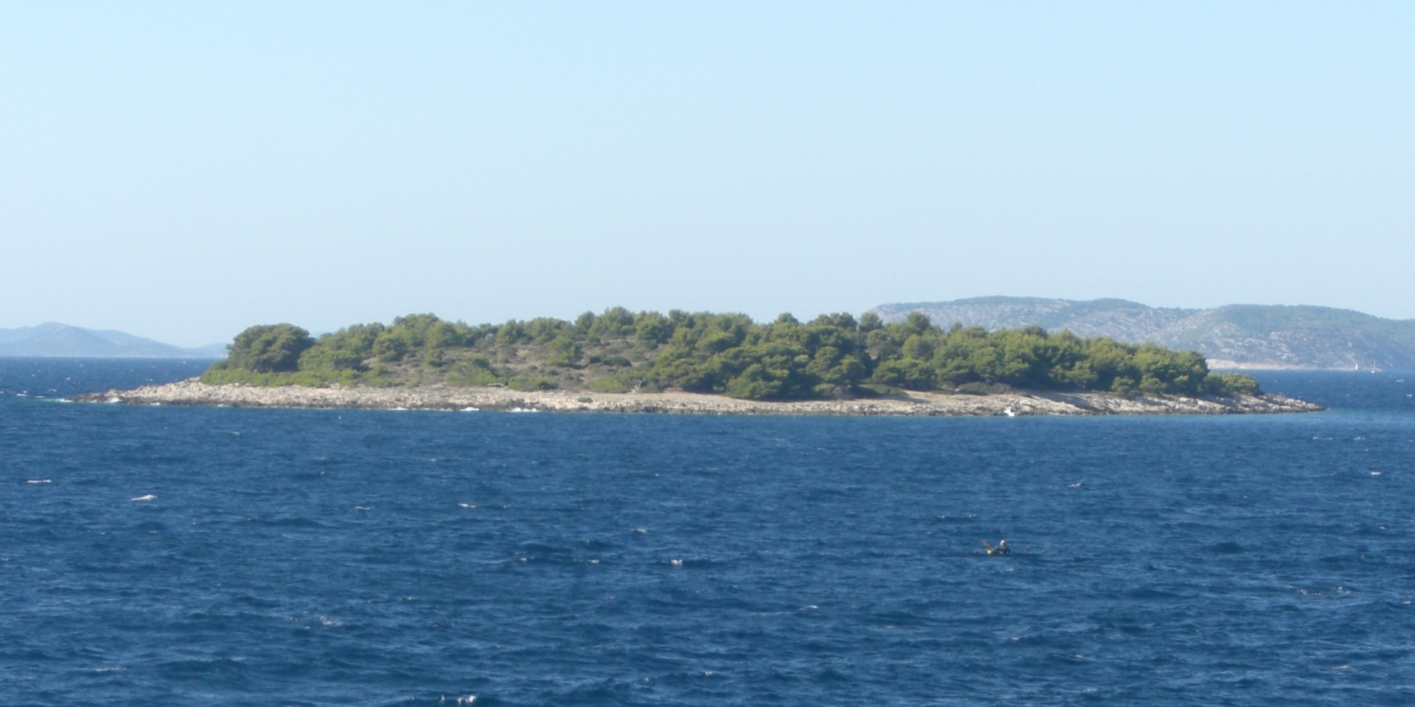 island of Smokvica, seen from Primošten, Croatia